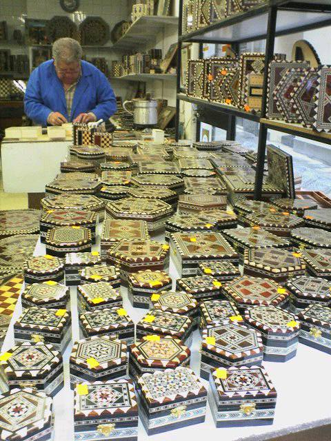 Parquetry shop in Granada, Spain.